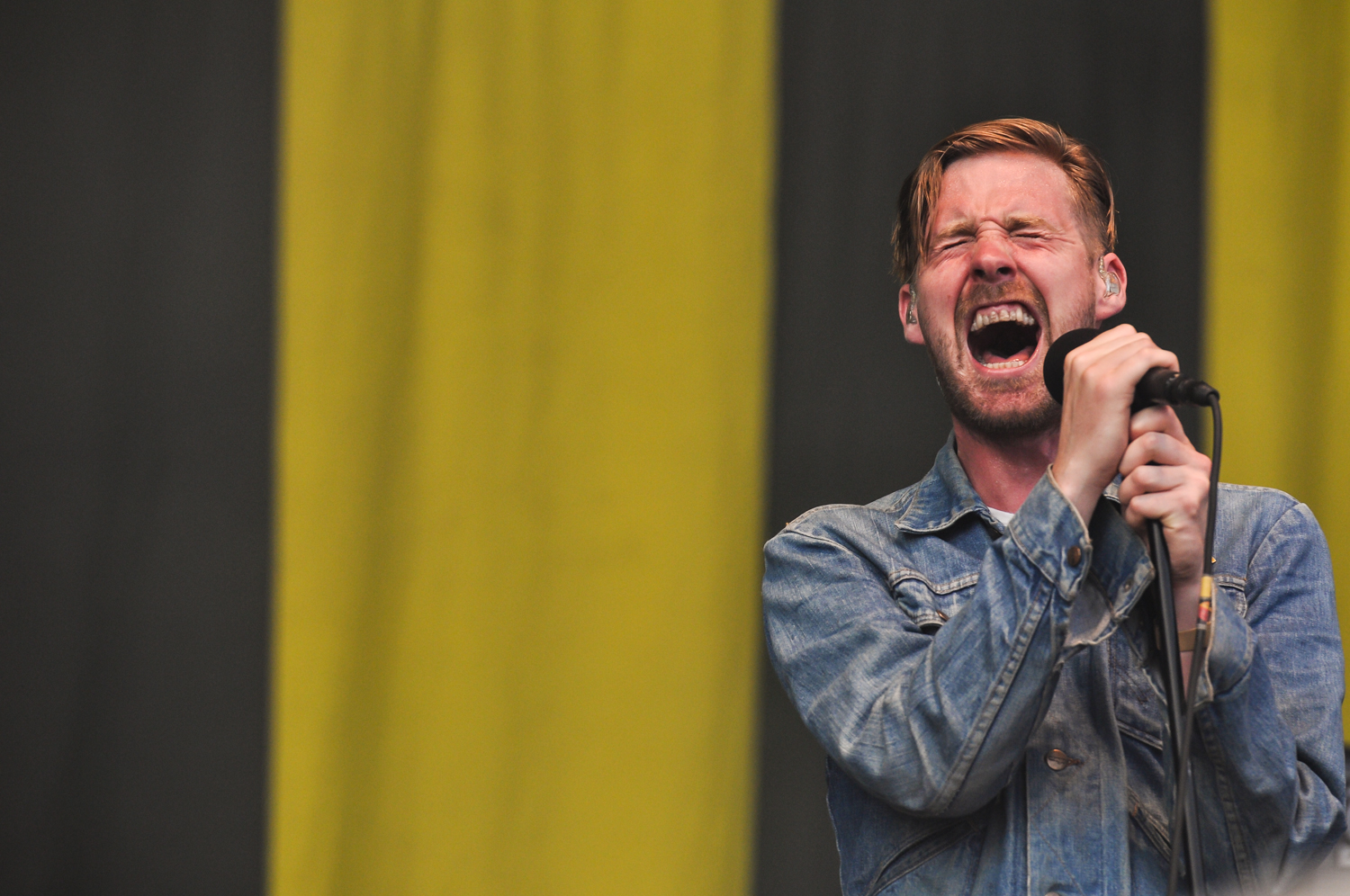 Kaiser Chiefs performing at Greenville Festival 2013